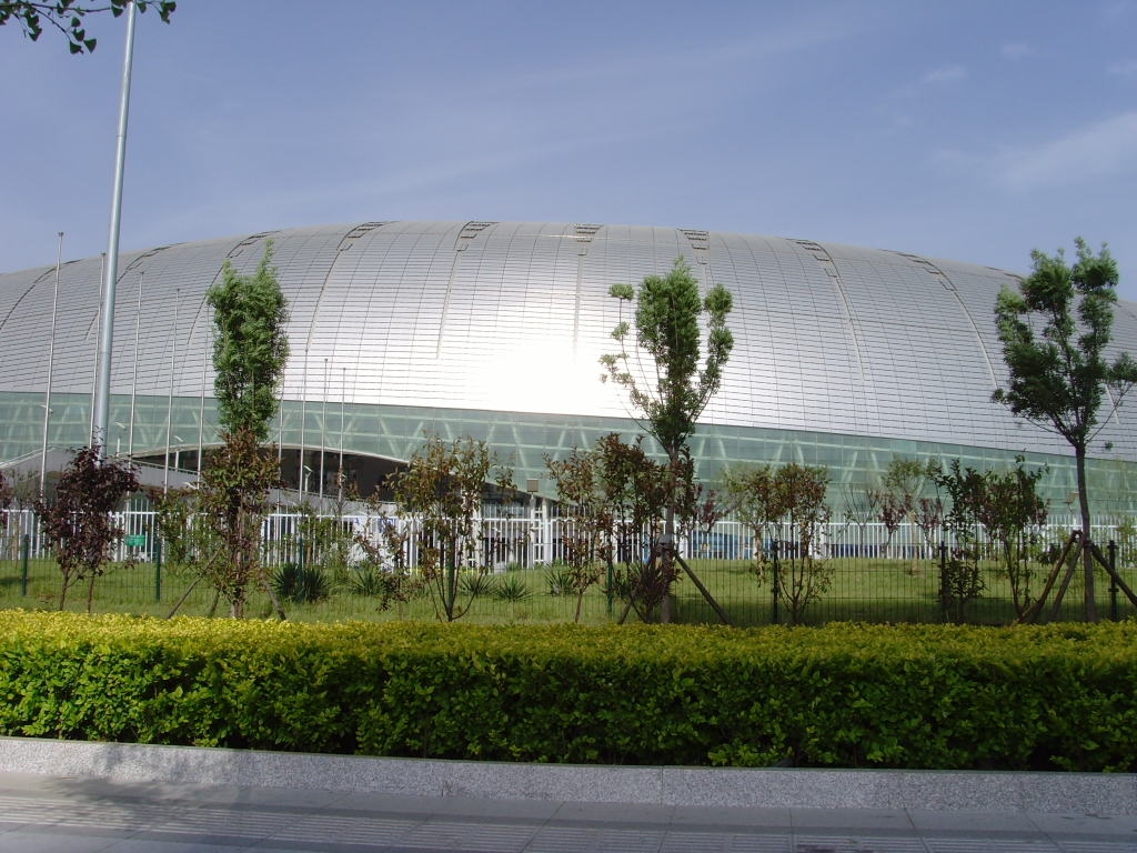 Tianjin Shuidi Stadium